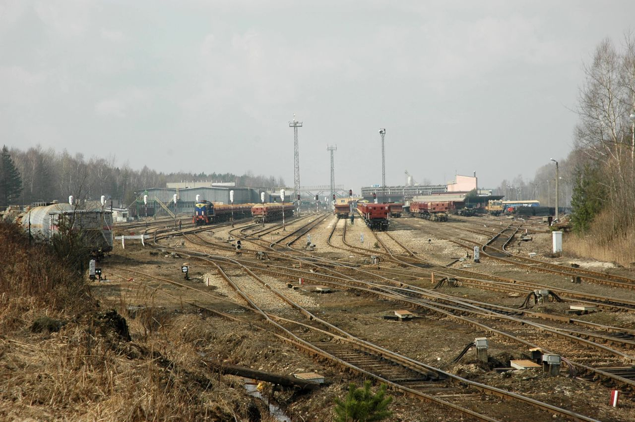 Kotlarnia railway station on the railway network of Kopalnia Piasku Kotlarnia - Linie Kolejowe, Poland